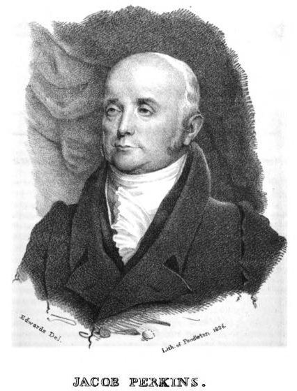 Portrait of Jacob Perkins. Drawn by Thomas Edwards; printed by Pendleton's Lithography, Boston, Massachusetts